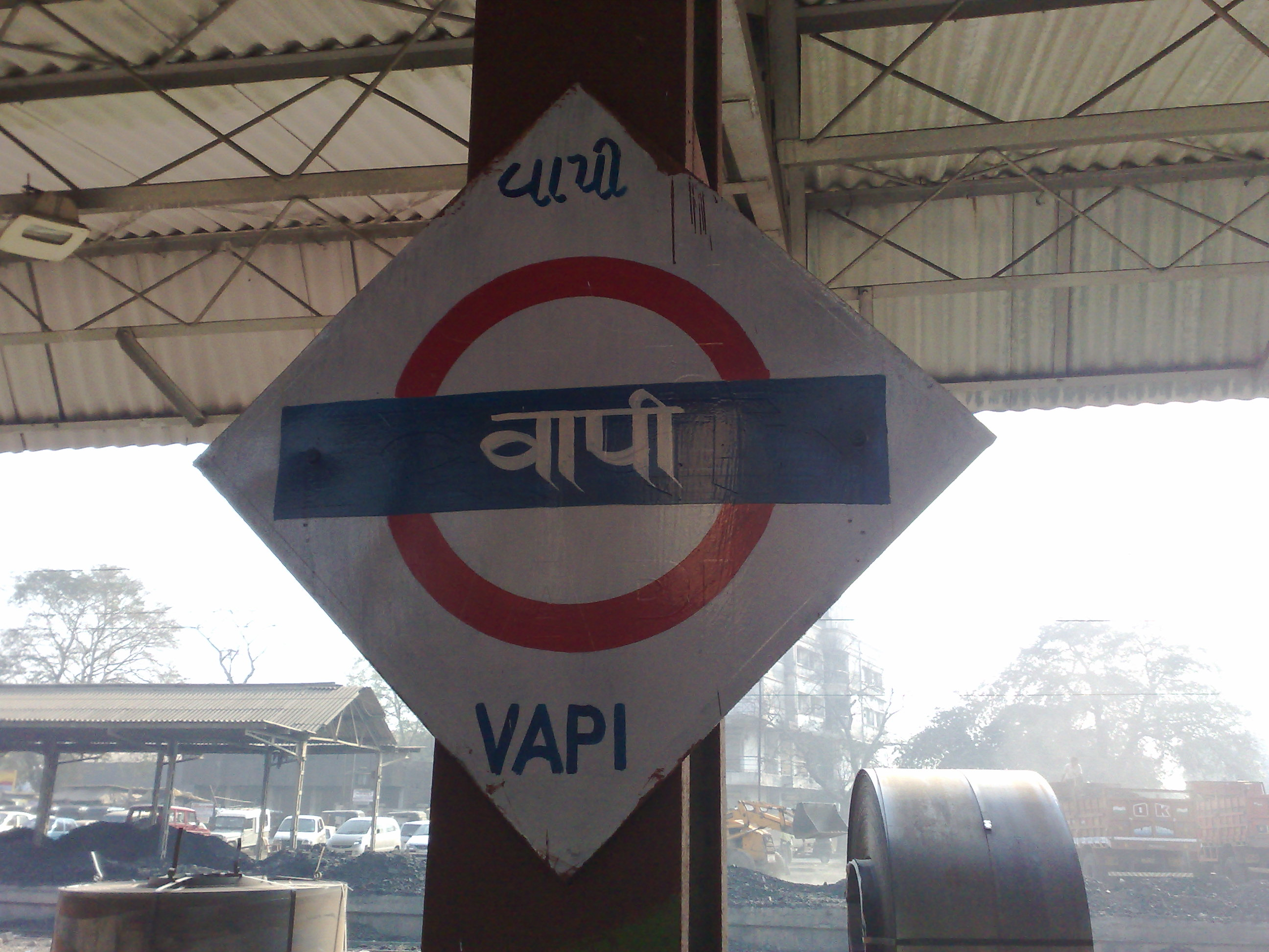 Vapi platformboard